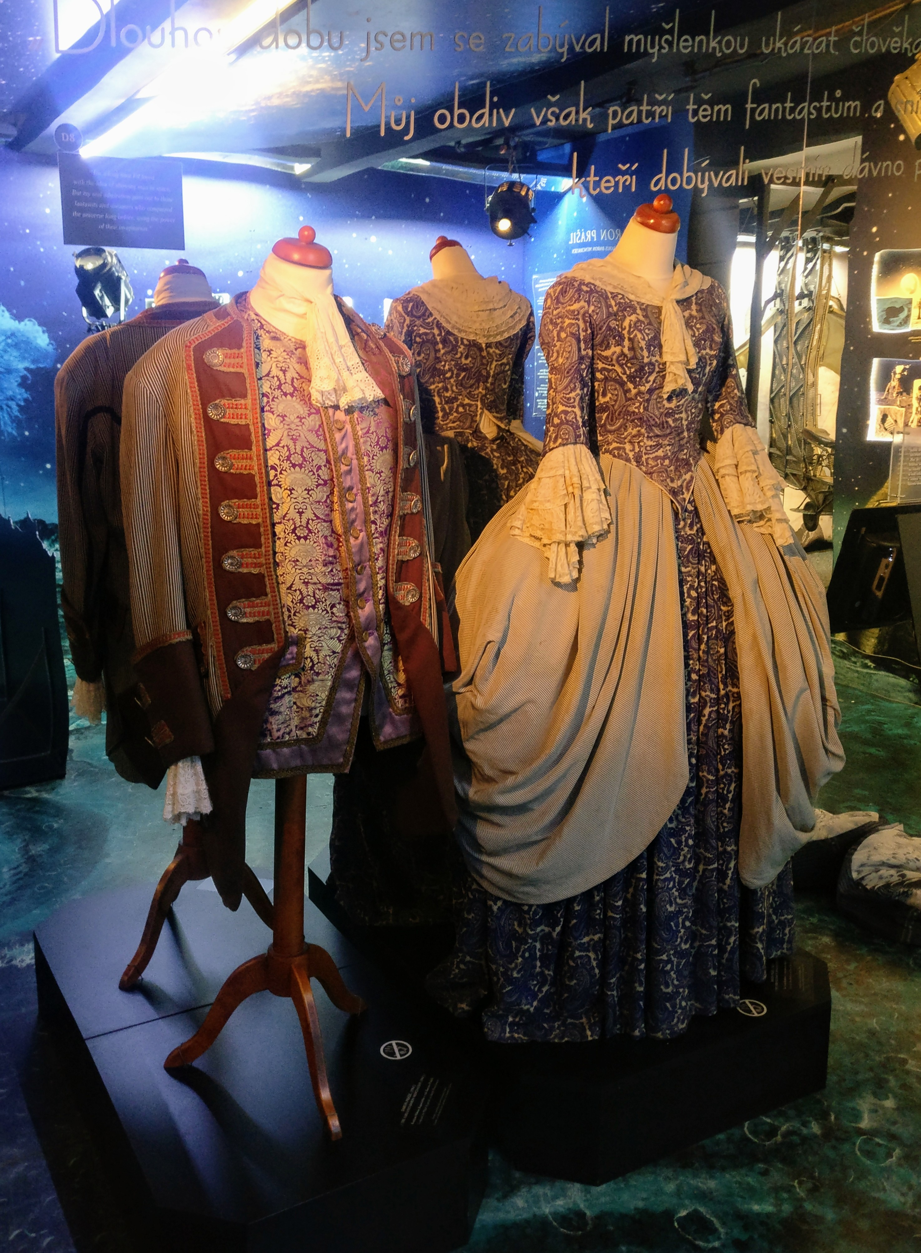 Costumes of the Karel Zeman Film Baron Prášil (1961)